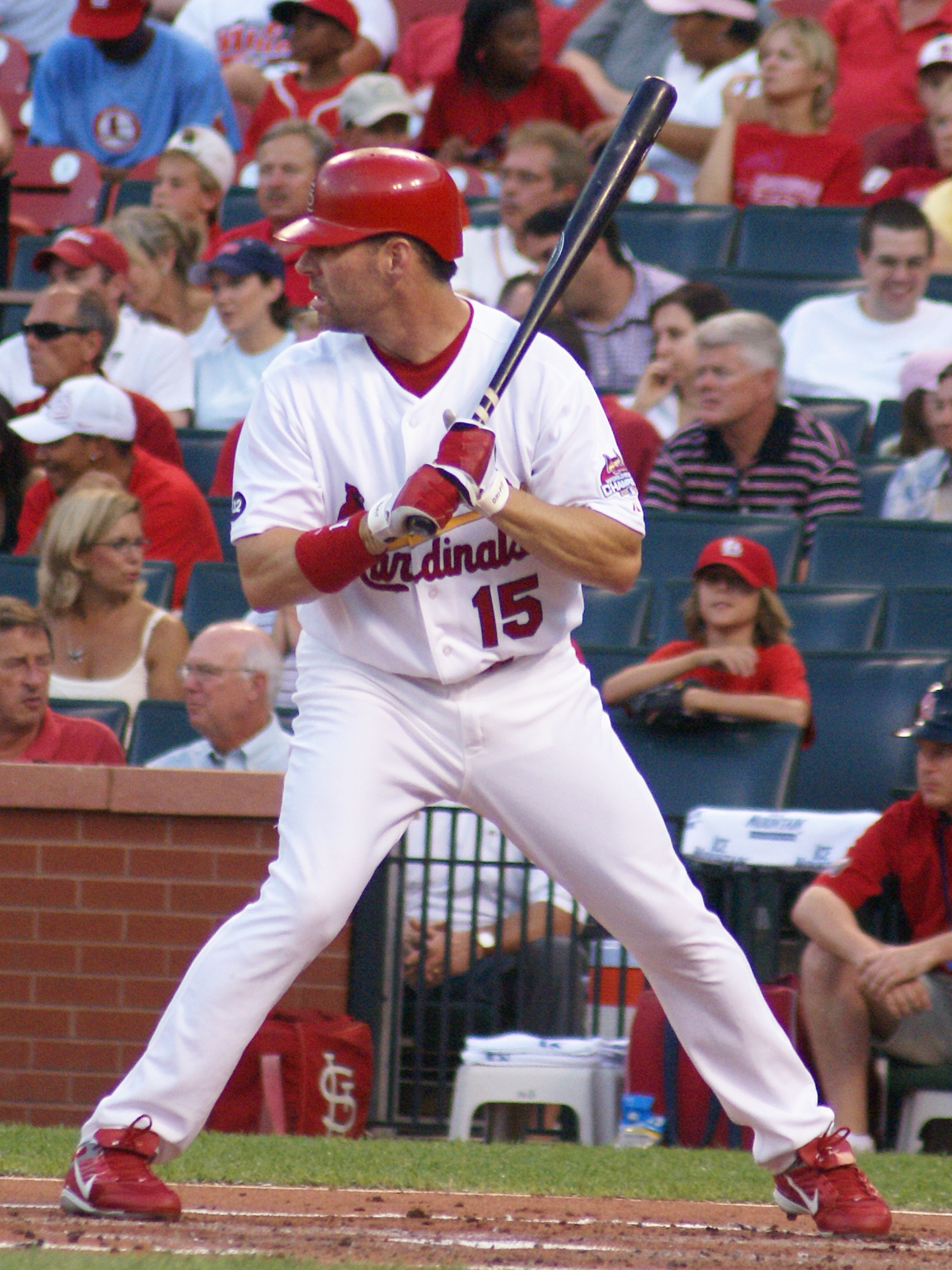 Jim Edmonds